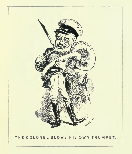 Caricature of the prominent Cape politician Colonel Schermbrucker. The Cape Lantern.